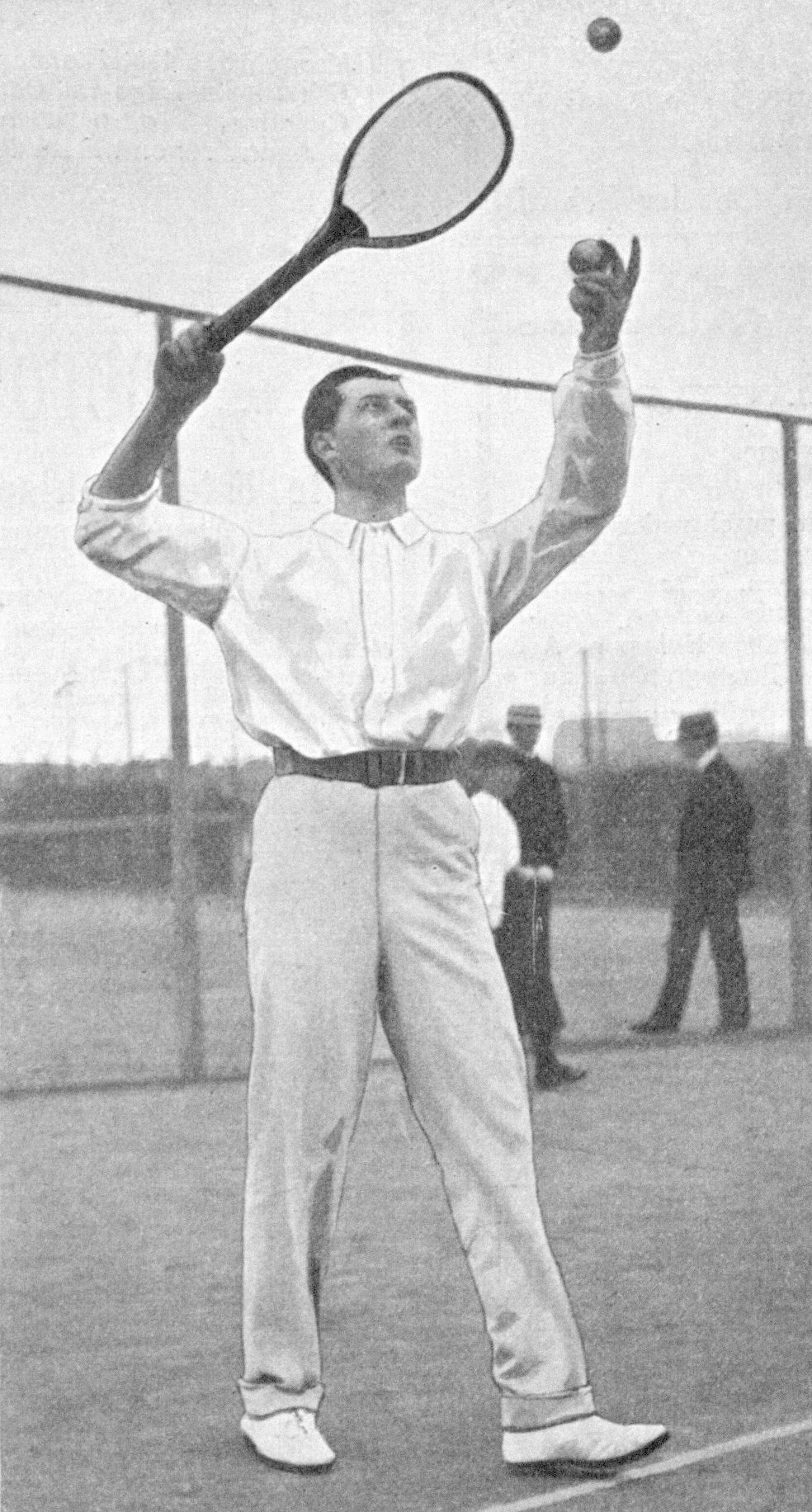 Gunnar Setterwall (1881-1928), Swedish tennis player, as a partner of a Swedish crown prince during Crown Prince's Tournament.